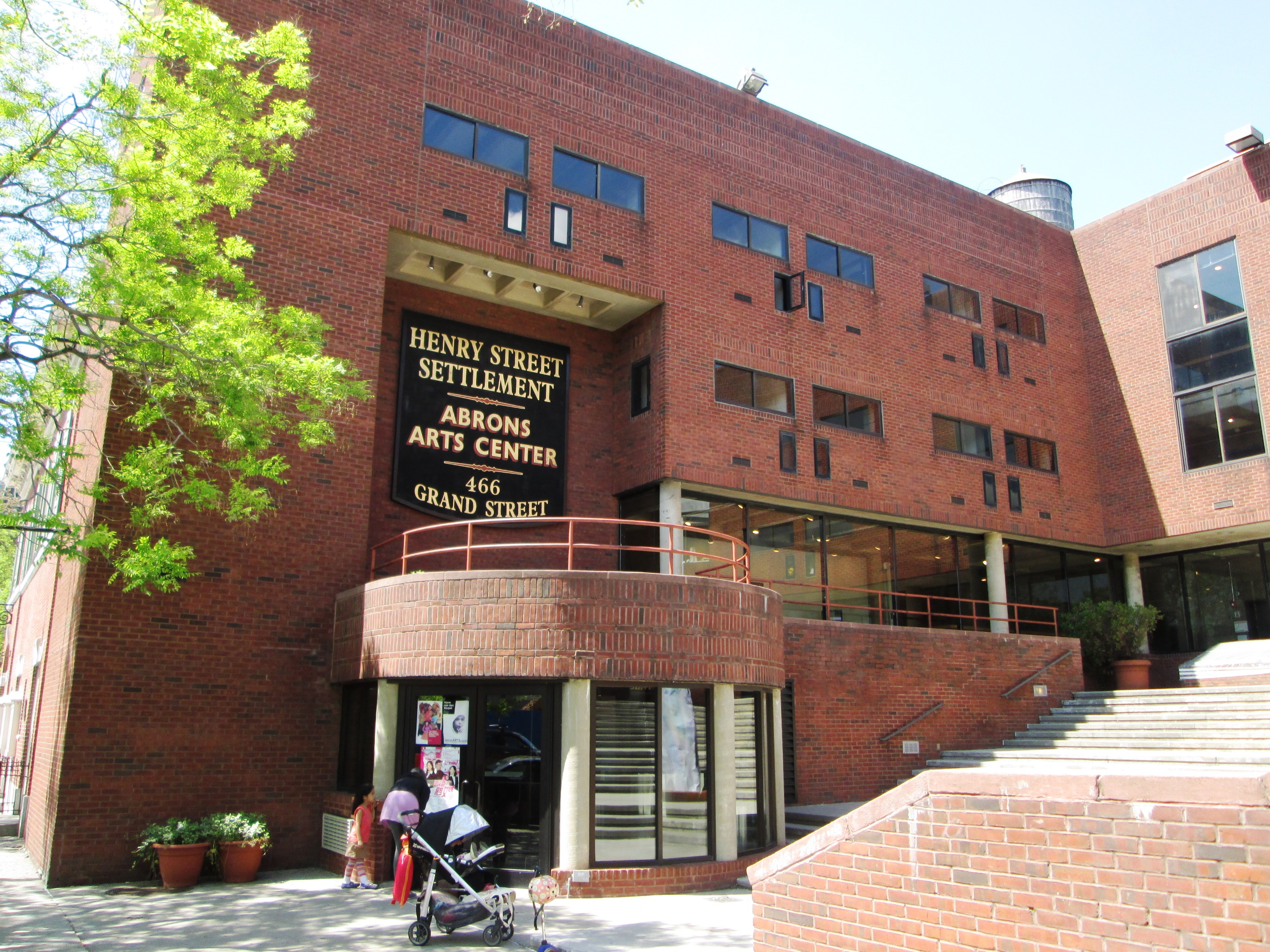 The Louis Abrons Arts for Living Center' at 466 Grand Street between Pitt Street and Bialystoker Place in the Lower East Side neighborhood of Manhattan, New York City was built in 1975 and was designed by Prentice & Chan Ohlhausen. It is part of the Henry Street Settlement. (Source: AIA Guide to NYC (5th ed.))